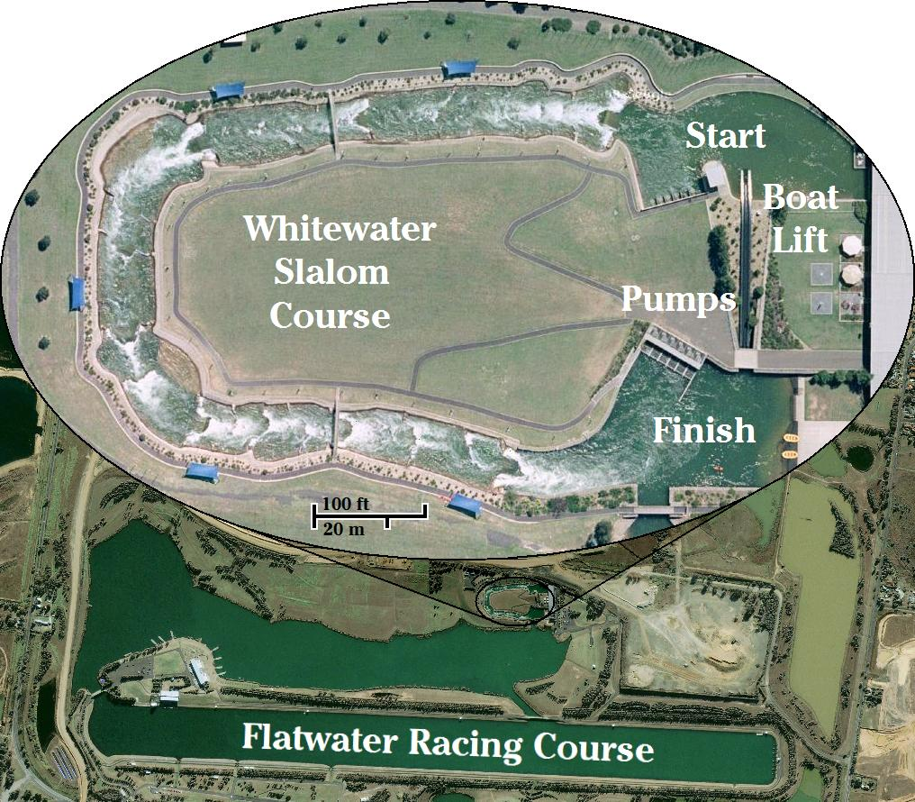 Penrith Whitewater Course Aerial